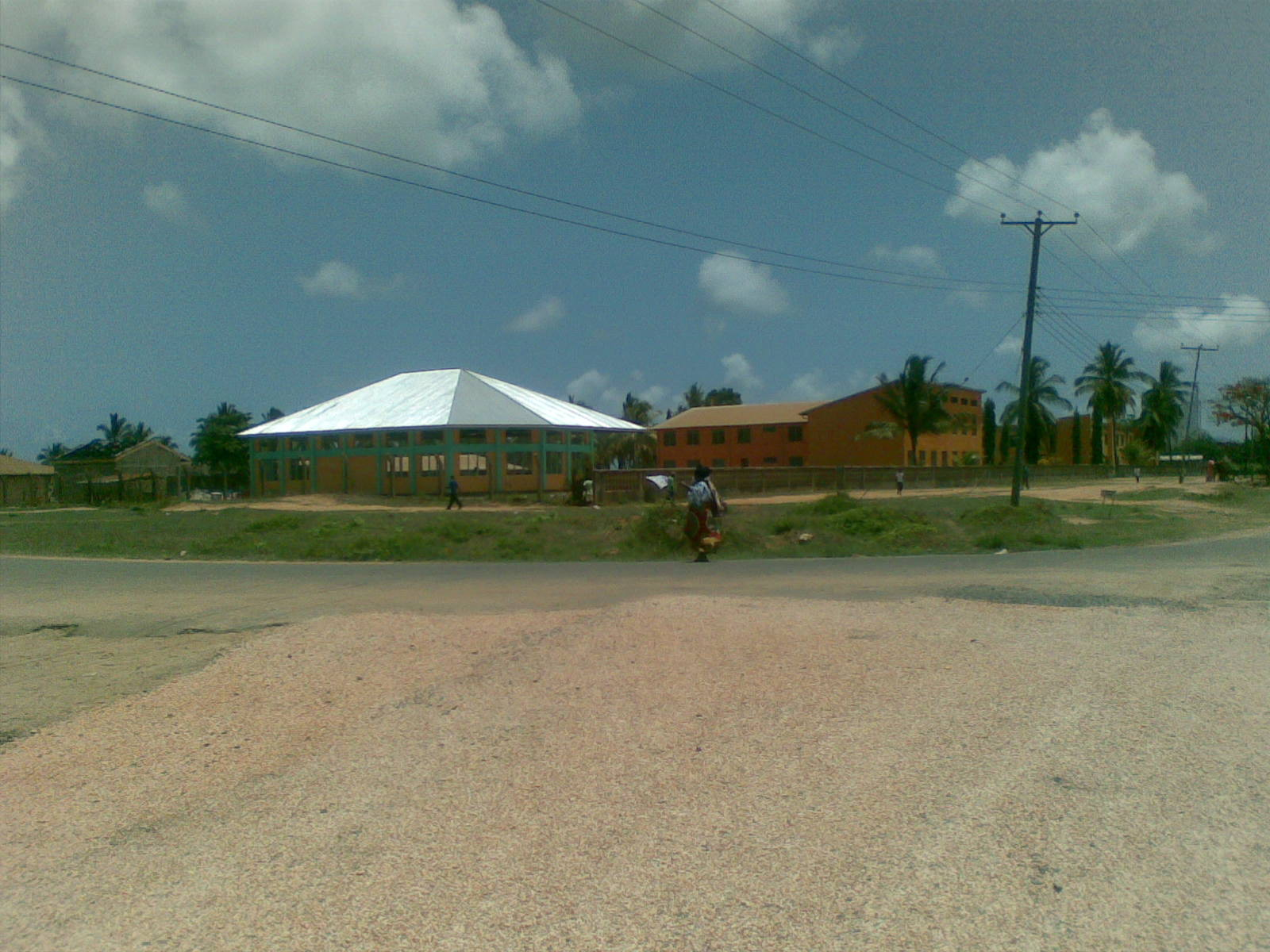 St. Augustine - Mtwara town, Tanzania